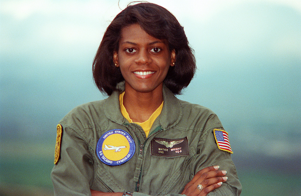 U.S. Navy Ensign Matice Wright, the U.S. Navy's first female naval flight officer of African-American descent, poses for a photograph. Wright was assigned to Fleet Air Reconnaissance Squadron 3 (VQ-3), which operated the Boeing E-6A Mercury from Naval Air Station Barbers Point, Hawaii (USA).